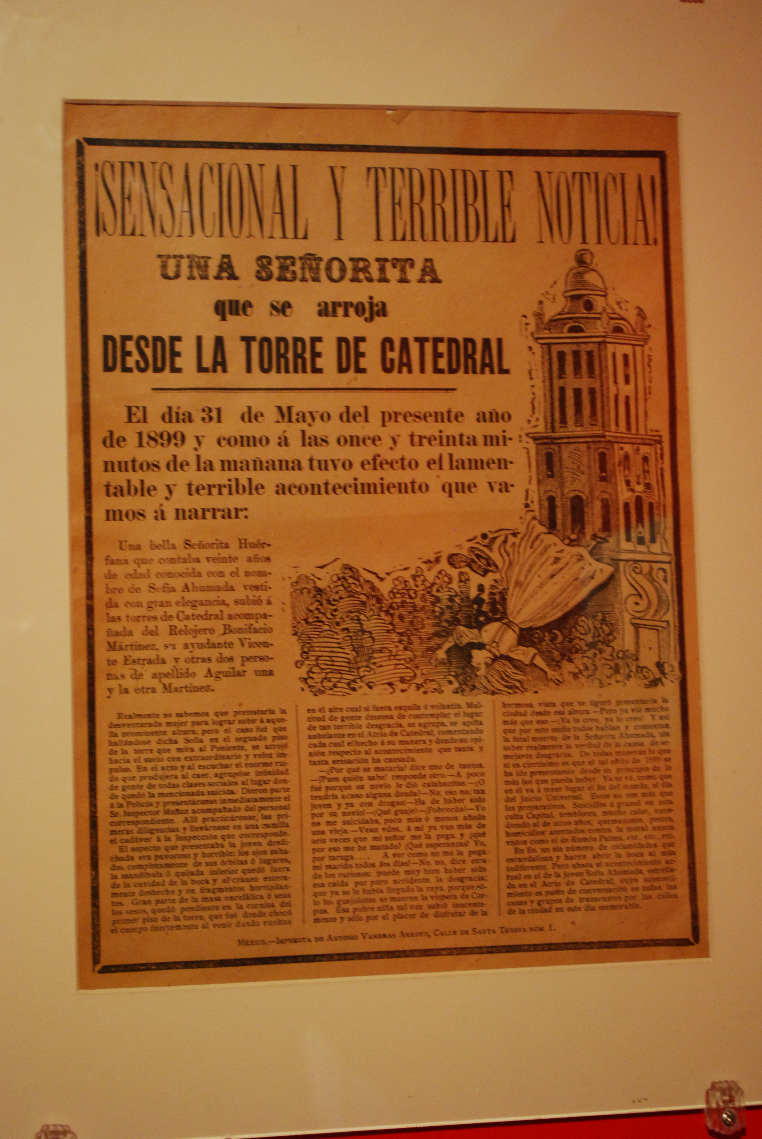 Flyer about a woman who committed suicide by jumping from one of the towers of the Mexico City Cathedral by Jose Guadalupe Posada in 1899.